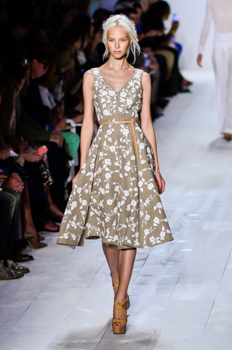 Sasha Luss walks the runway at the Michael Kors Spring/Summer 2014 show at New York Fashion Week, September 2013.